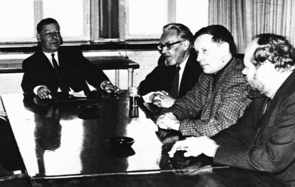 Photograph of the members of Kirjailijaryhmä Kiila (writers' group Kiila) board members at their meeting in Helsinki, Finland. From left to right: Sven Grönvall, Arvo Turtiainen, Tapio Tapiovaara, Jarno Pennanen.